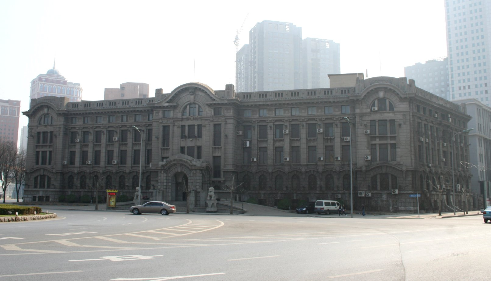 Dairen Exchange building in Dairen City (now Dalian, PRC). Built in 1913